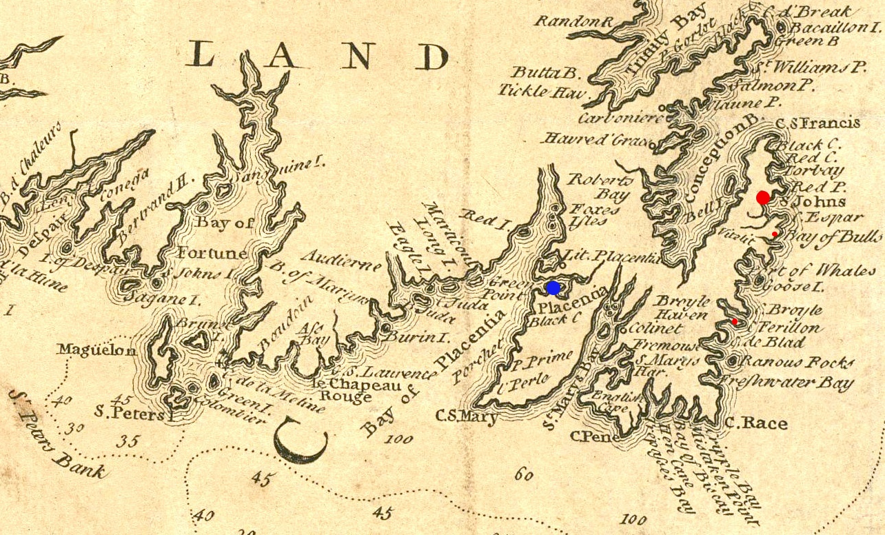 Extract from a 1746 map depicting southeastern Newfoundland. In addition to crop for selection, image has had levels and colors adjusted to improve contrast, and has been annotated to show a few places of importance in Queen Anne's War. Plaisance is marked in blue, St. John's is marked with a large red spot, and Ferryland and B